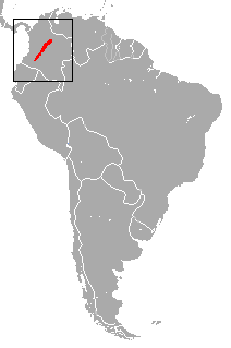 Thomas' Small-eared Shrew (Cryptotis thomasi) range